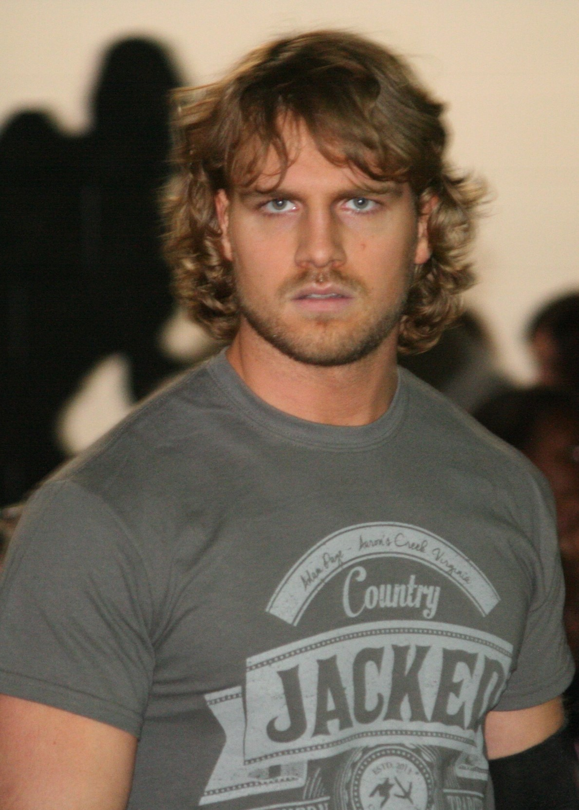 Adam Page in October 2014 at a PWX show in North Carolina.